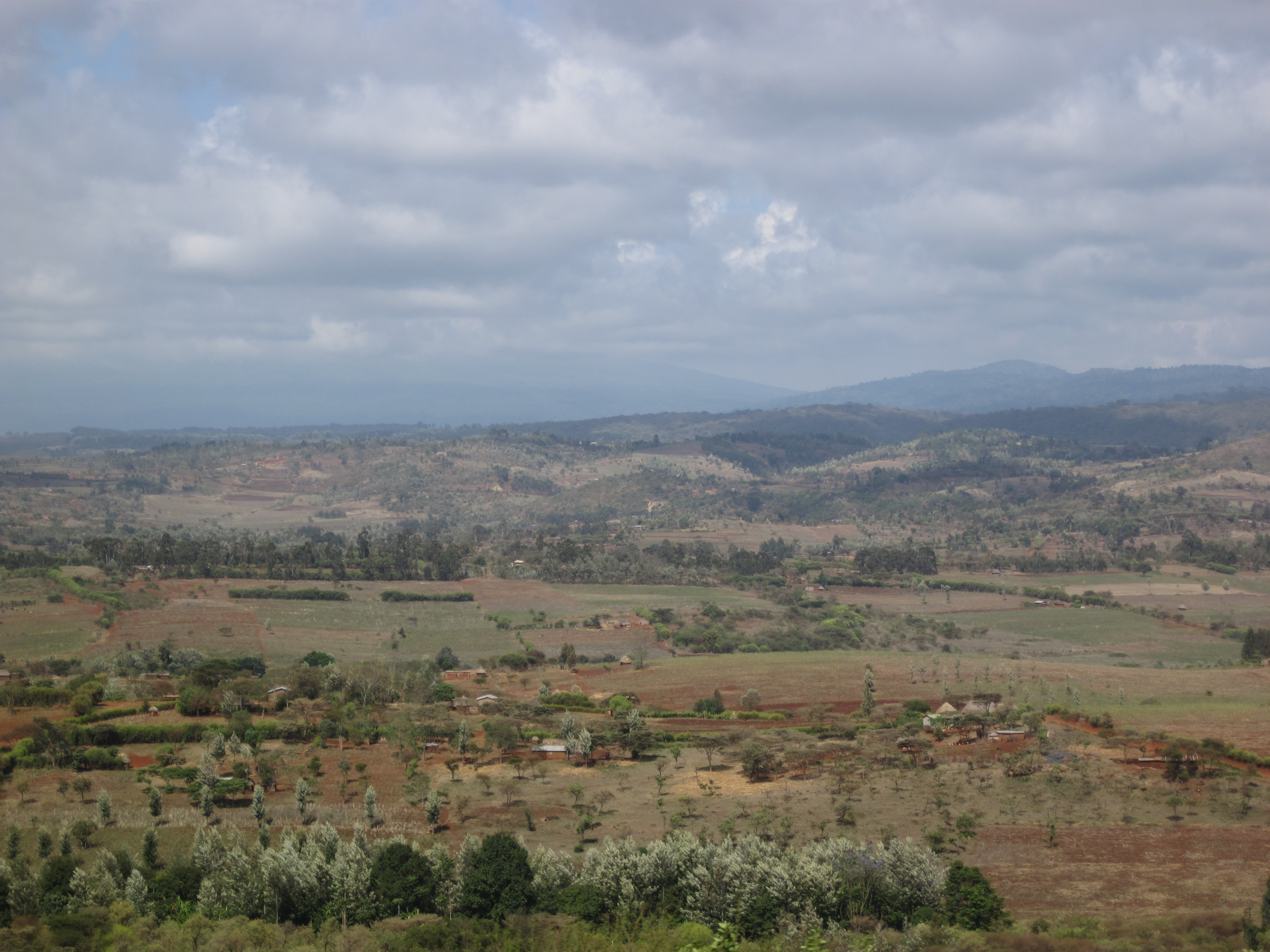 Iraqw land